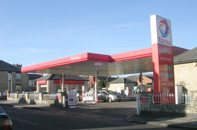 Total Filling Station - North Street